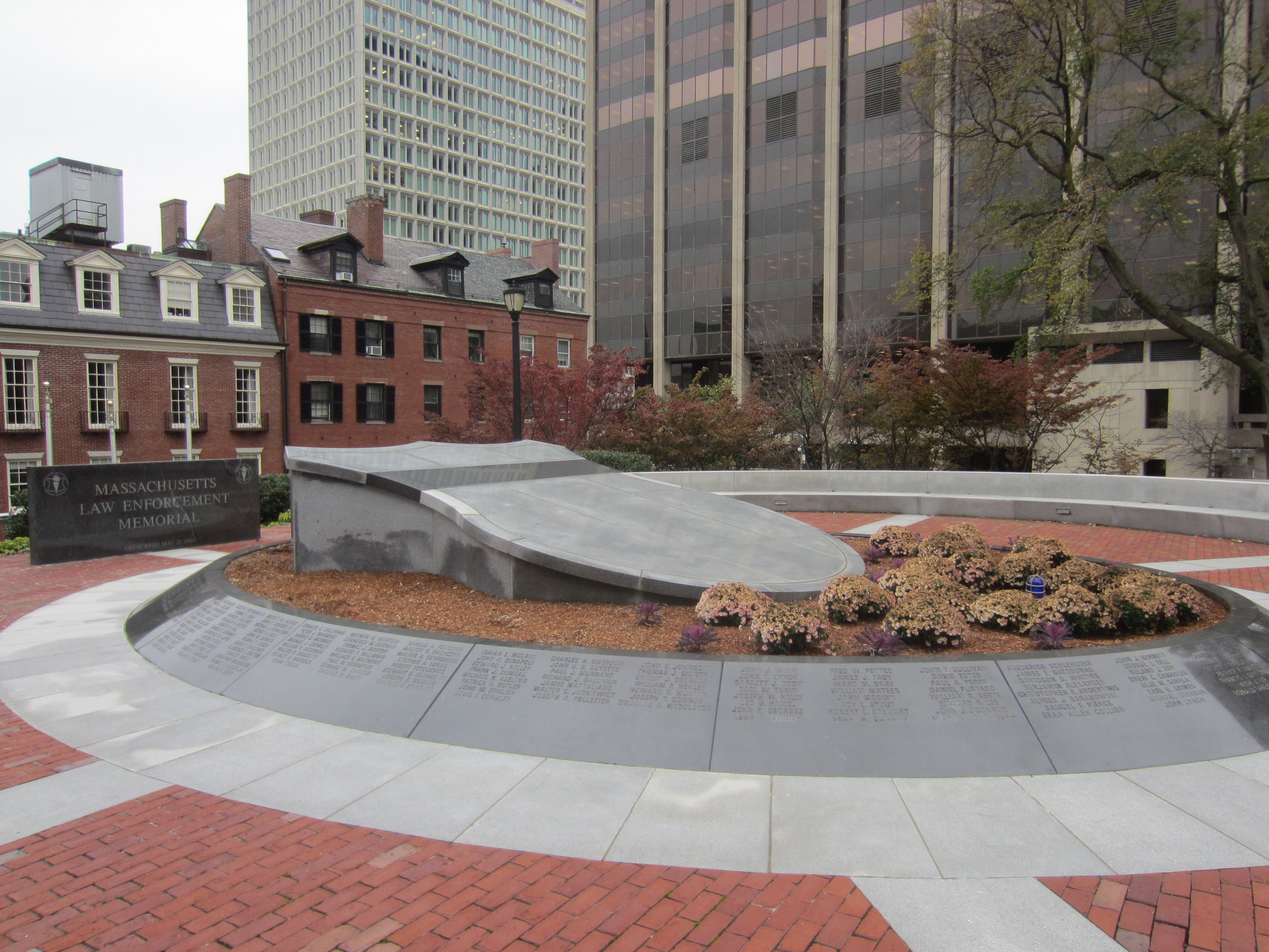 Boston (2019)